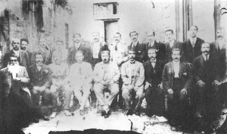 The Chiefs of the Dersim tribes, Ankara, 1926.